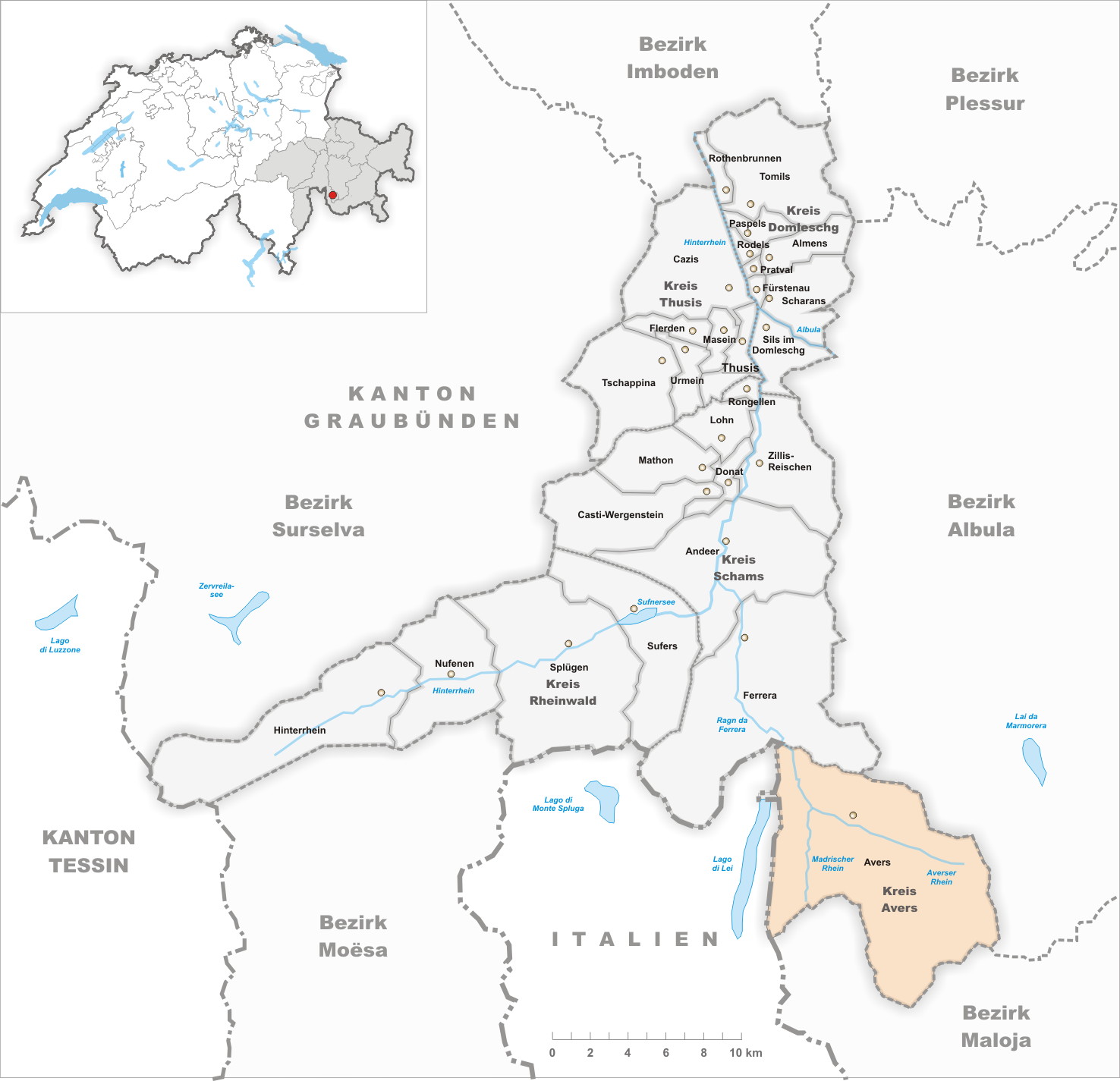 Municipality Avers